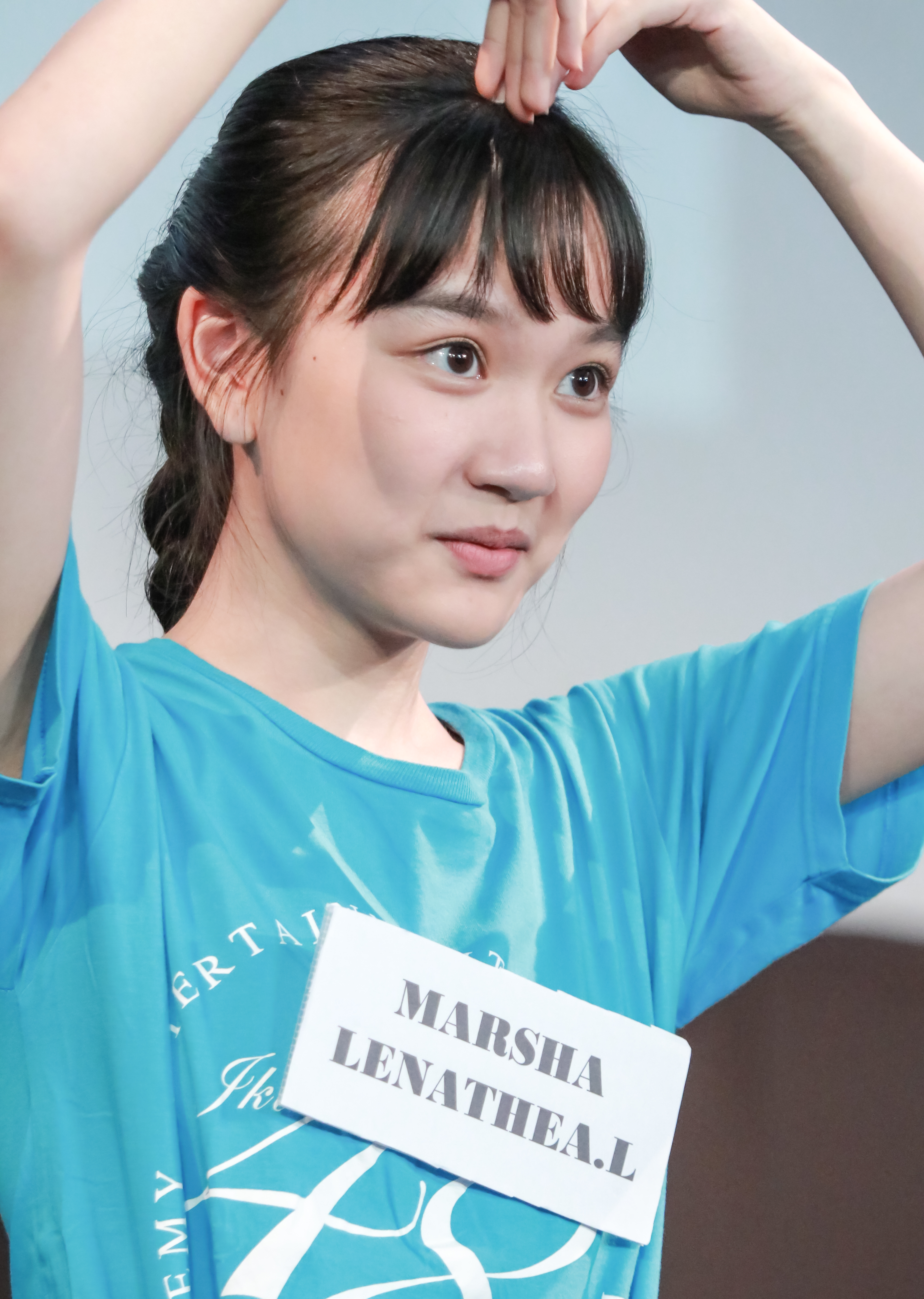 Marsha Lenathea Lapian on 1 December 2019